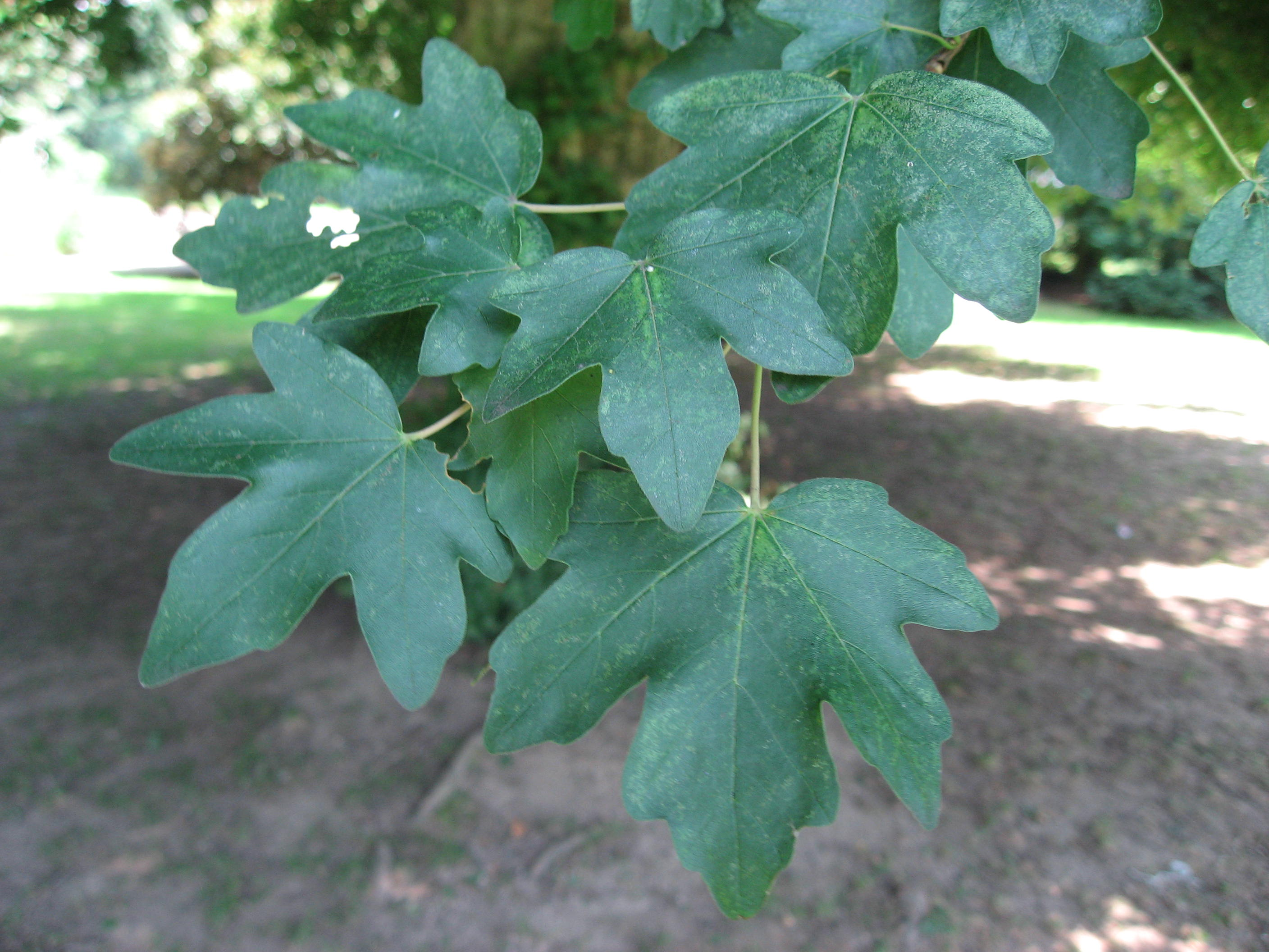 Acer campestre in Parc Sainte Marie of Nancy (Lorraine, France). Map: 48° 40' 50" N 6° 10' 15" E